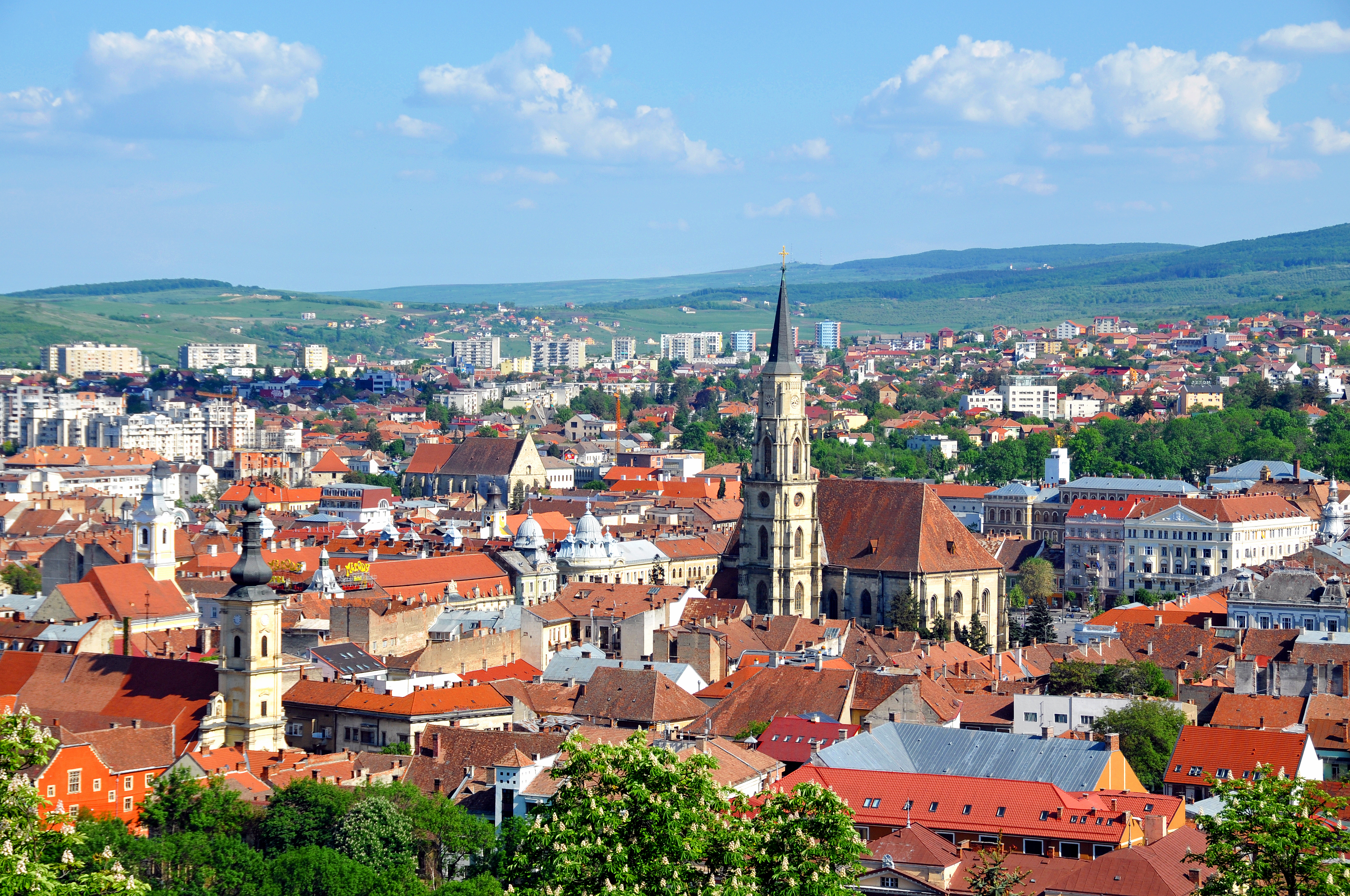 PLEASE, no multi invitations, glitters or self promotion in your comments, THEY WILL BE DELETED. My photos are FREE for anyone to use, just give me credit and it would be nice if you let me know, thanks - NONE OF MY PICTURES ARE HDR. Looking over the city towards Union Square and St. Michaels Church from the hotel.